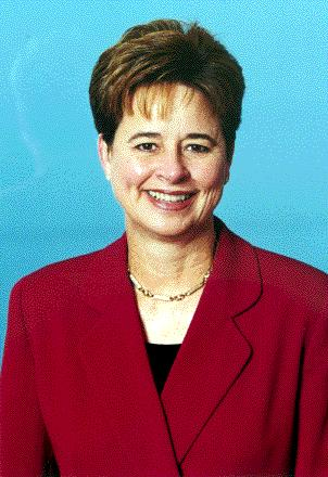 Picture of Martha Barnett, the former President of the American Bar Association [1]